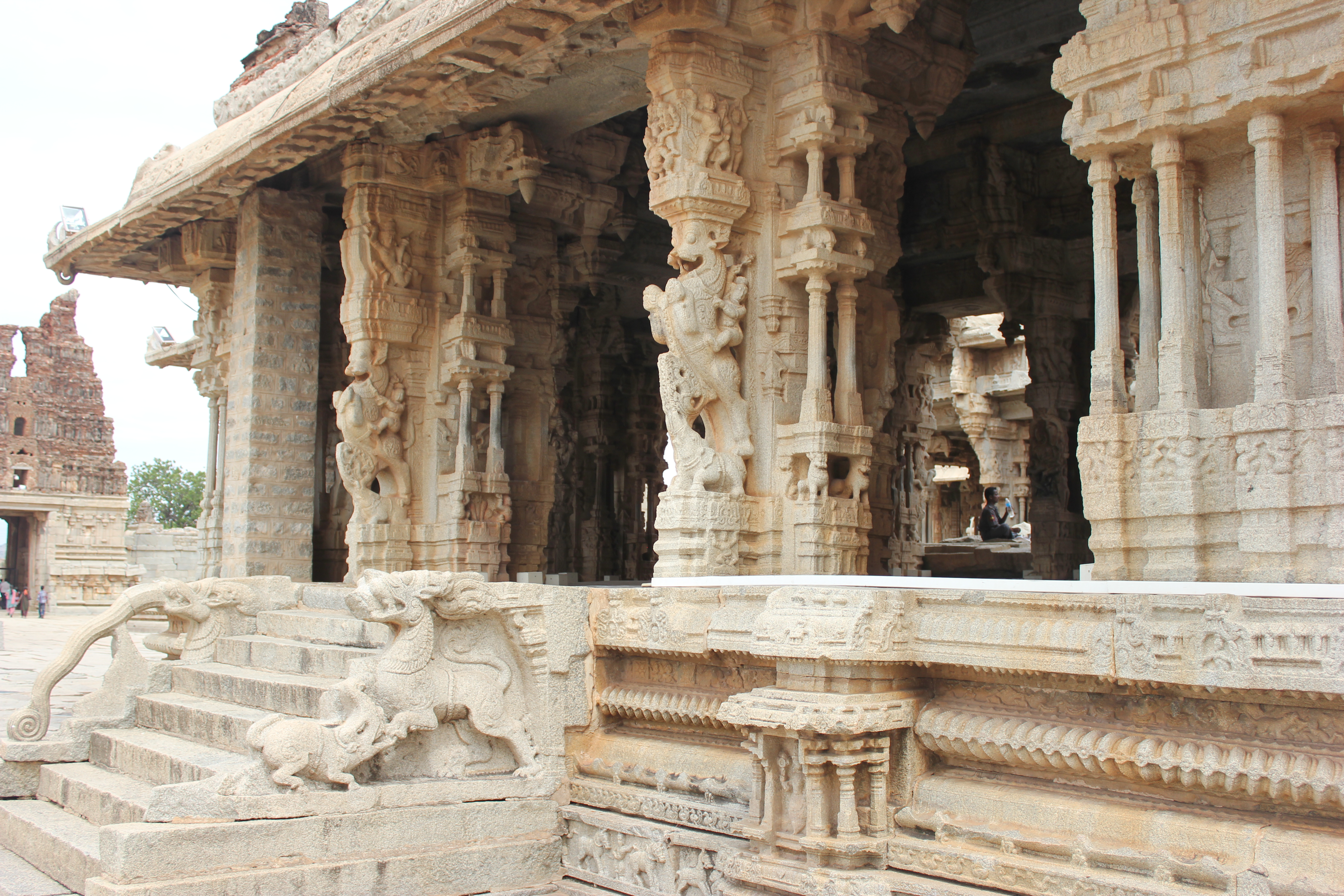 This photograph was taken by me at the Vitthala temple complex in Hampi, a UNESCO world heritage site in the Bellary district, Karnataka state, India. The Vitthala temple took about a hundred years to complete. Its construction was started during the rule of Vijayanagara King Deva Raya II (1426-1446 AD) and completed during the reign of King Achyuta Raya (1529-1542 AD)